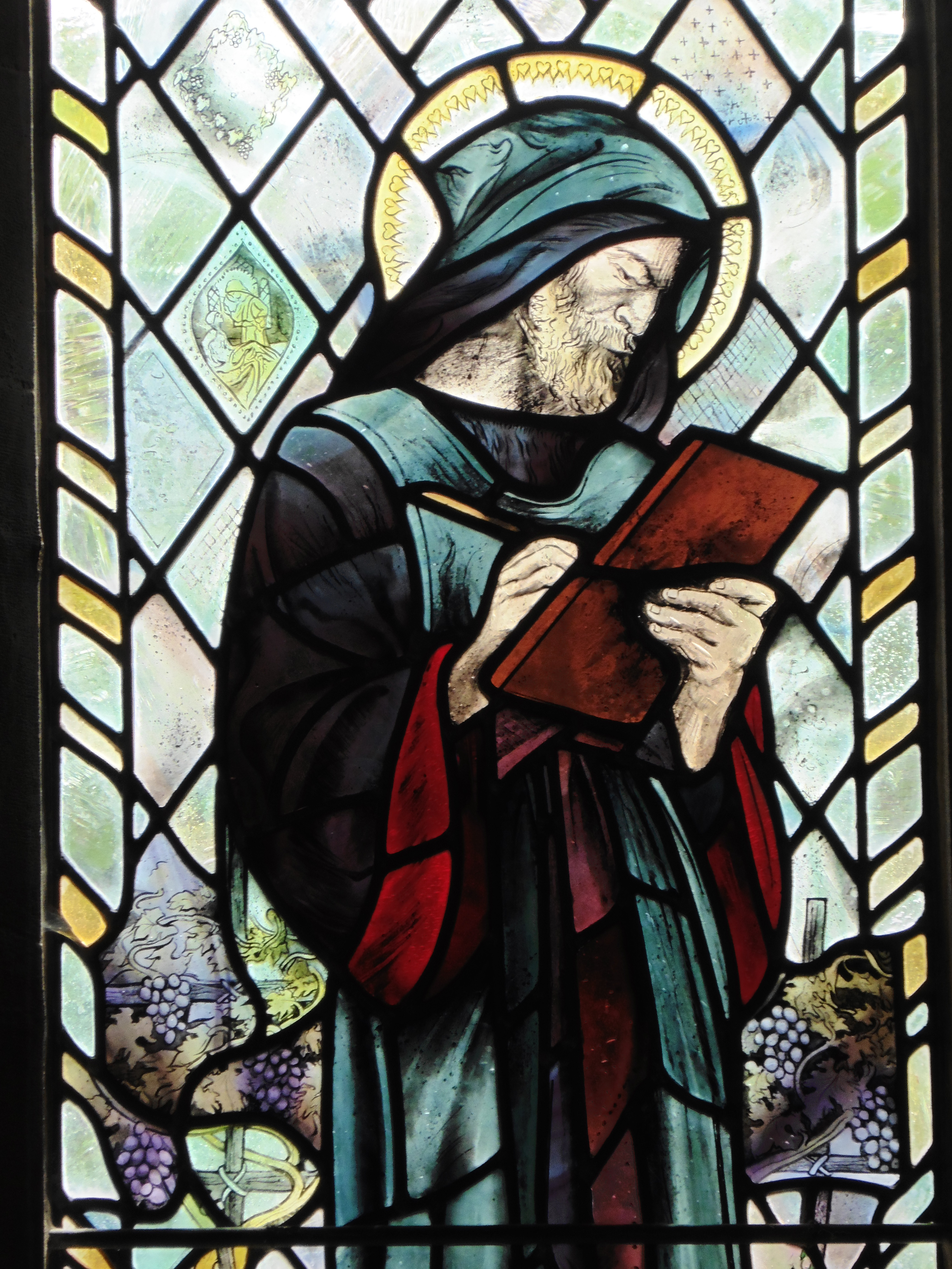 Karl Parsons design made in 1995